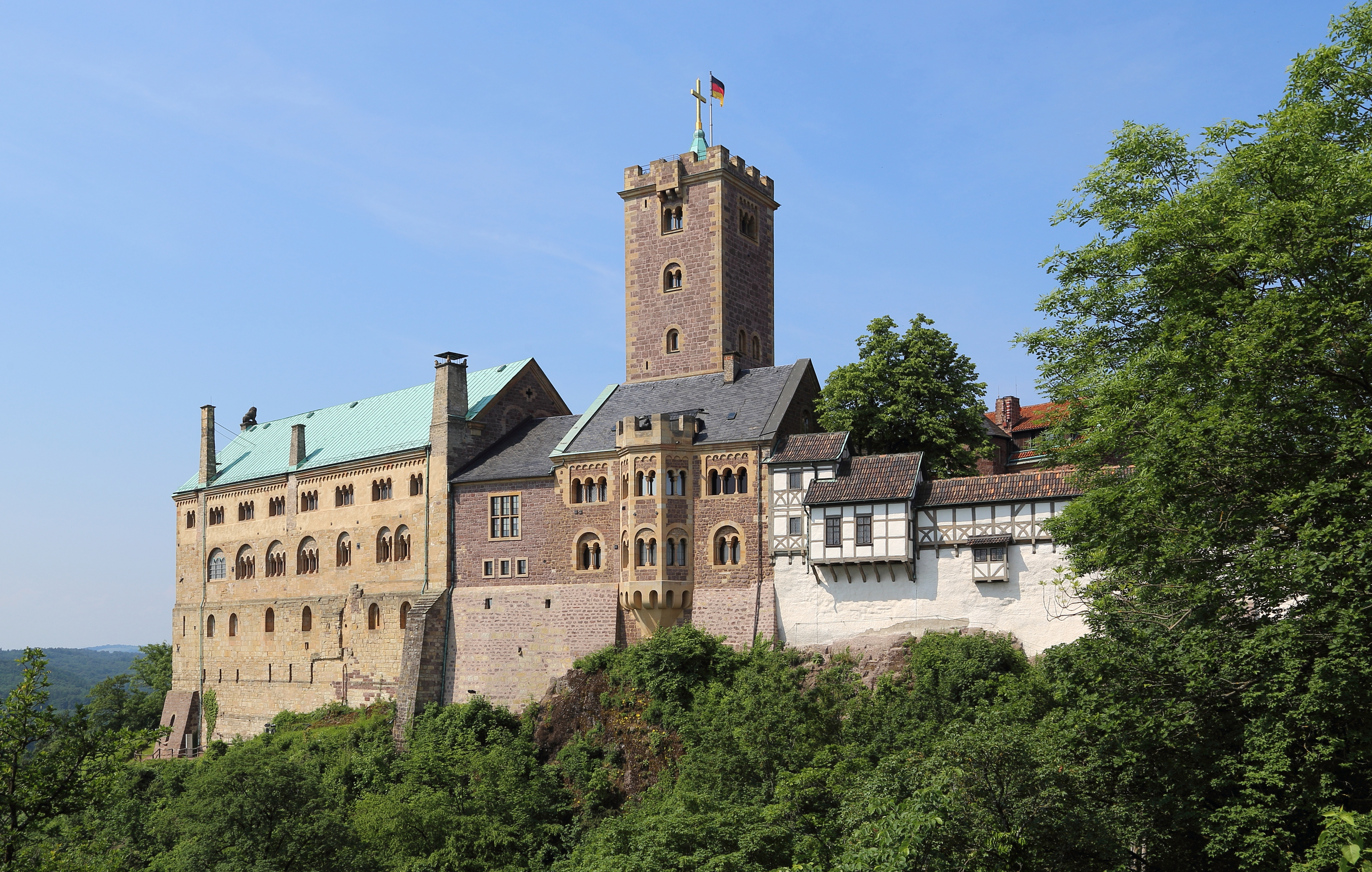 Wartburg Castle (Wartburg) in Eisenach, Thuringia, Germany.